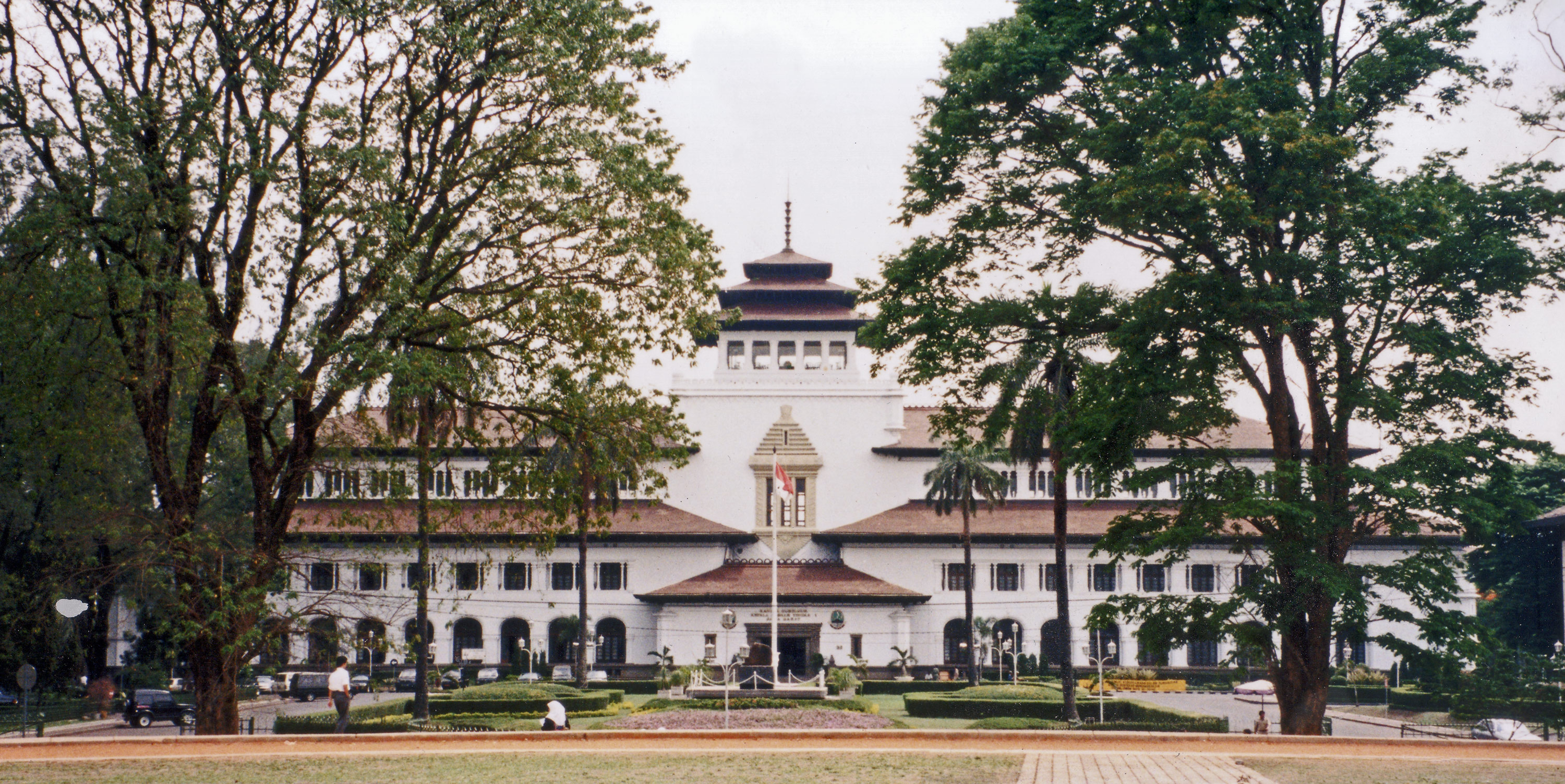 West Java Government Building (the Gedung Sate)